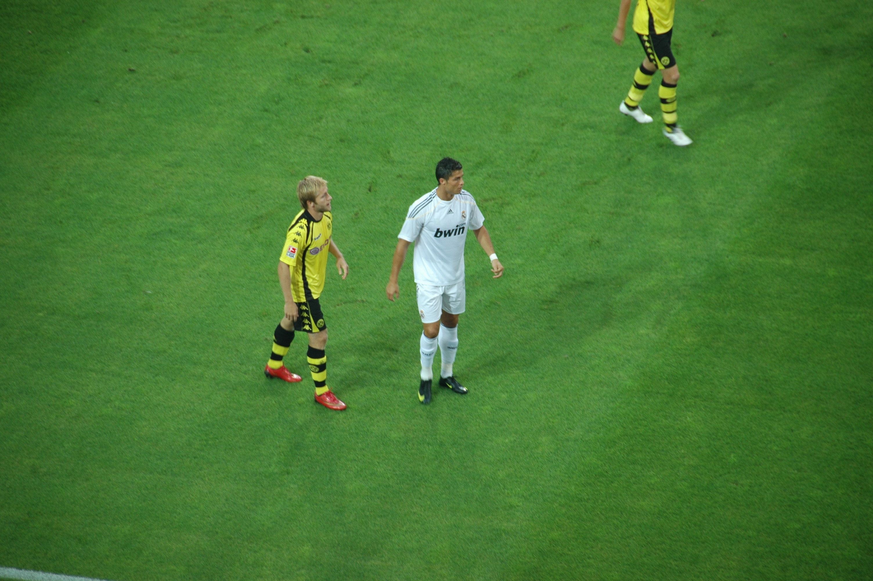 Cristiano Ronaldo well guarded during the friendly game between Borussia Dortmund and Real Madrid in Dortmund (Germany) on 19 August 2009.